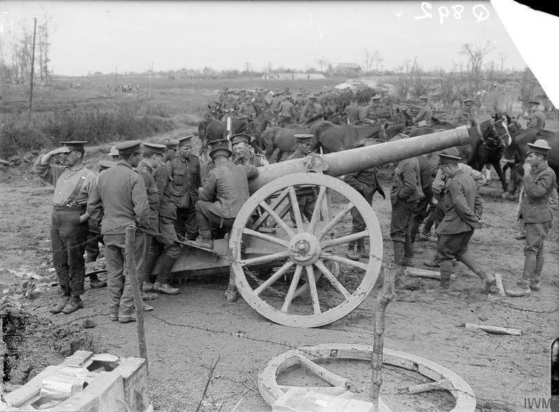 The Battle of the Somme, July-november 1916 German gun captured in Fricourt Wood, July 1916.